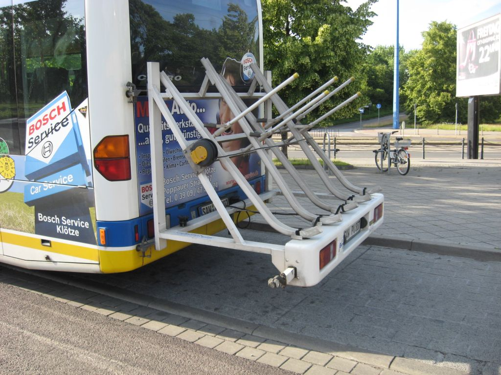 bus with bicycle transport device, phtotgraphed in Magdeburg/Germany at the main bus station (ZOB)